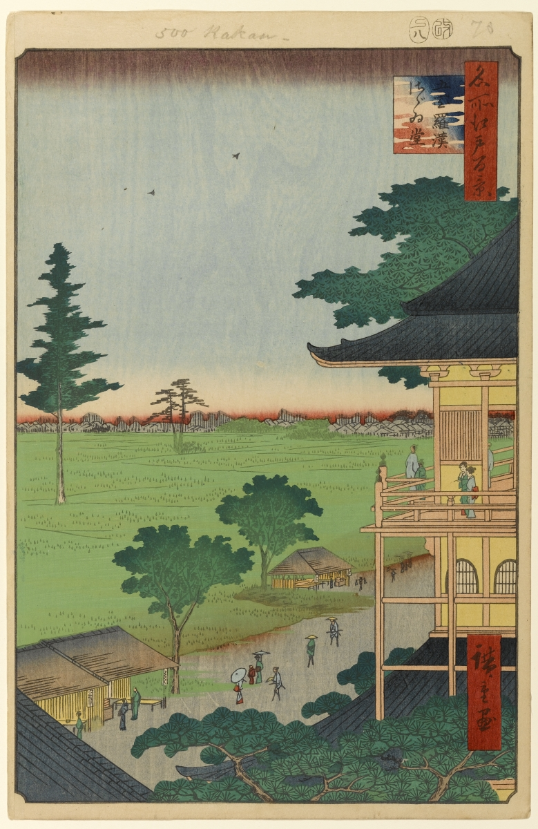 Part of the series One Hundred Famous Views of Edo, no. 066, part 2: Summer.